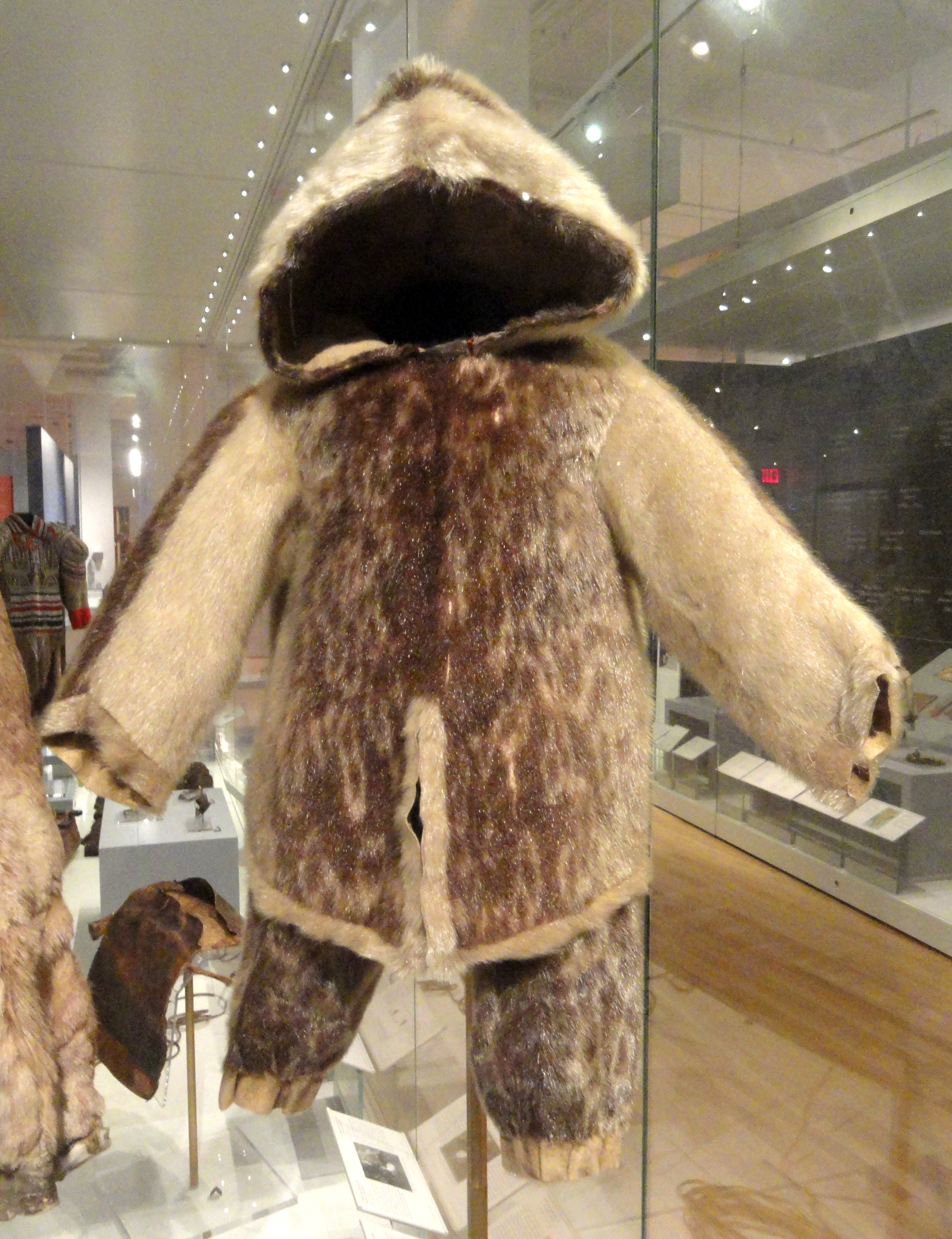 Exhibit in the Royal Ontario Museum, Toronto, Ontario, Canada. Photography was permitted in the museum. I took this photograph and release it into the public domain.